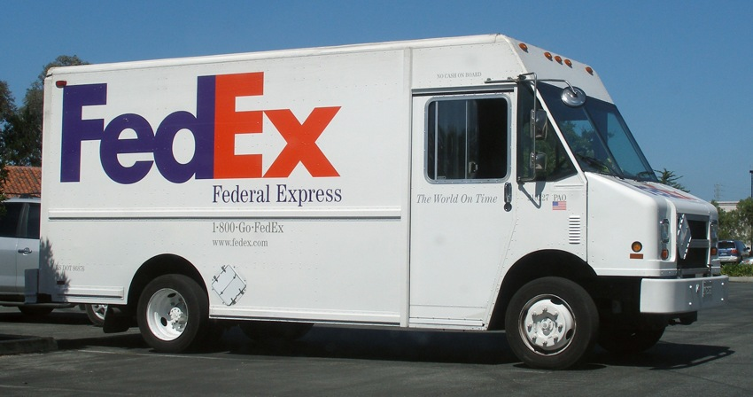 A FedEx Express delivery truck in a shopping center parking lot in Redwood City.